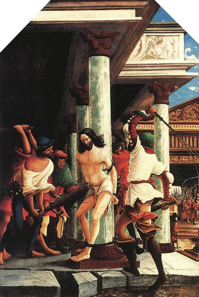 The Flagellation of Christ